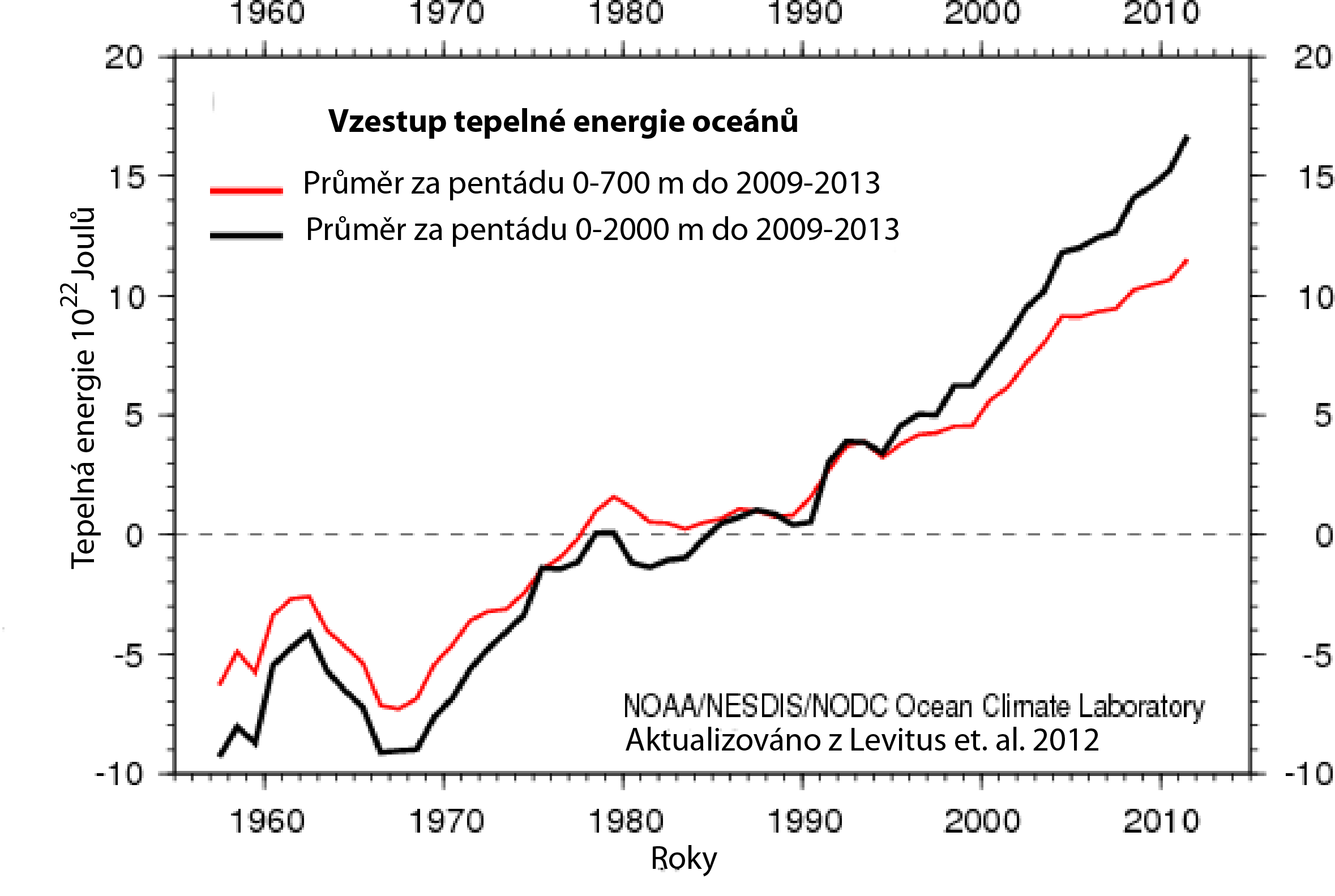 Comparison of Global Heat Content 0-700 meters layer vs. 0-2000 meters layer